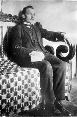 Yanka Kupala during his study at Saint Petersburg in 1909 Беларуская (тарашкевіца): Янка Купала ў пэрыяд вучобы на агульнаадукацыйных курсах А. Чарняева. г. Санкт-Пецярбург, 1909 г.